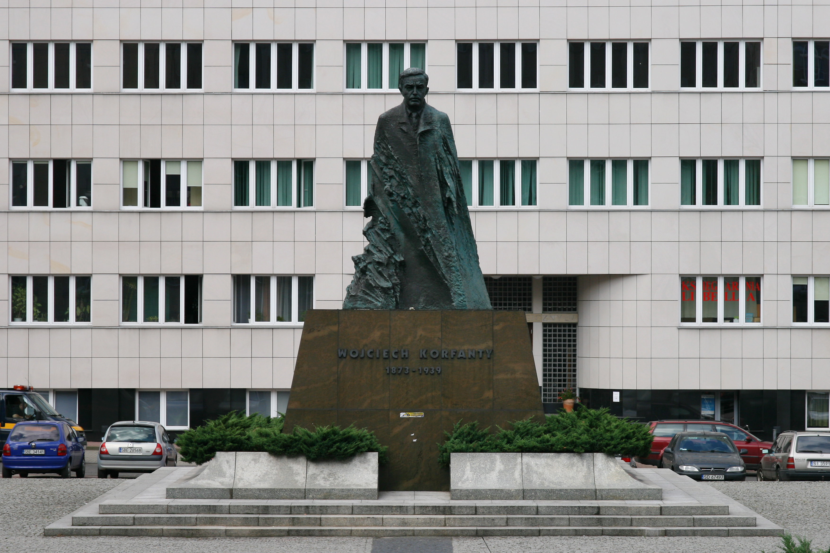 Wojciech Korfanty (Katowice, Poland).